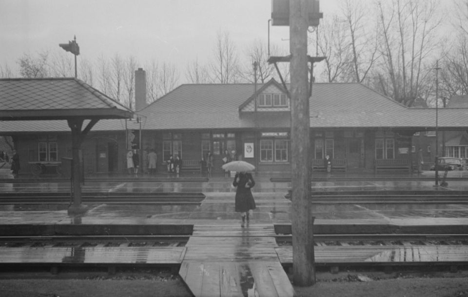 A lady, sheltered under her umbrella, crosses the tracks in front of the Montreal West train station.